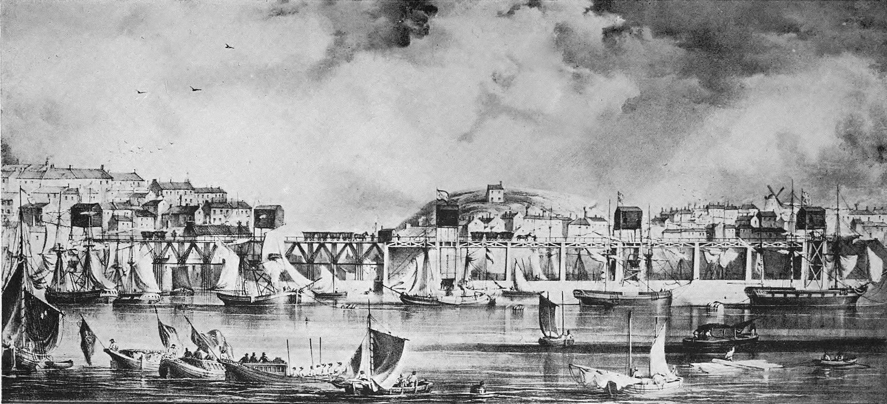 Image from Tomlinson;s The North Eastern Railway Image filename closely matches description in work. For a list of plates see page ix in book , eg - (or use index) The images are near to the relavent text in the work